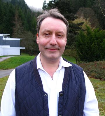 Keith Ball, Oberwolfach 2009